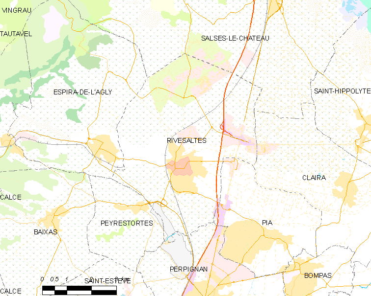 Map of French municipality